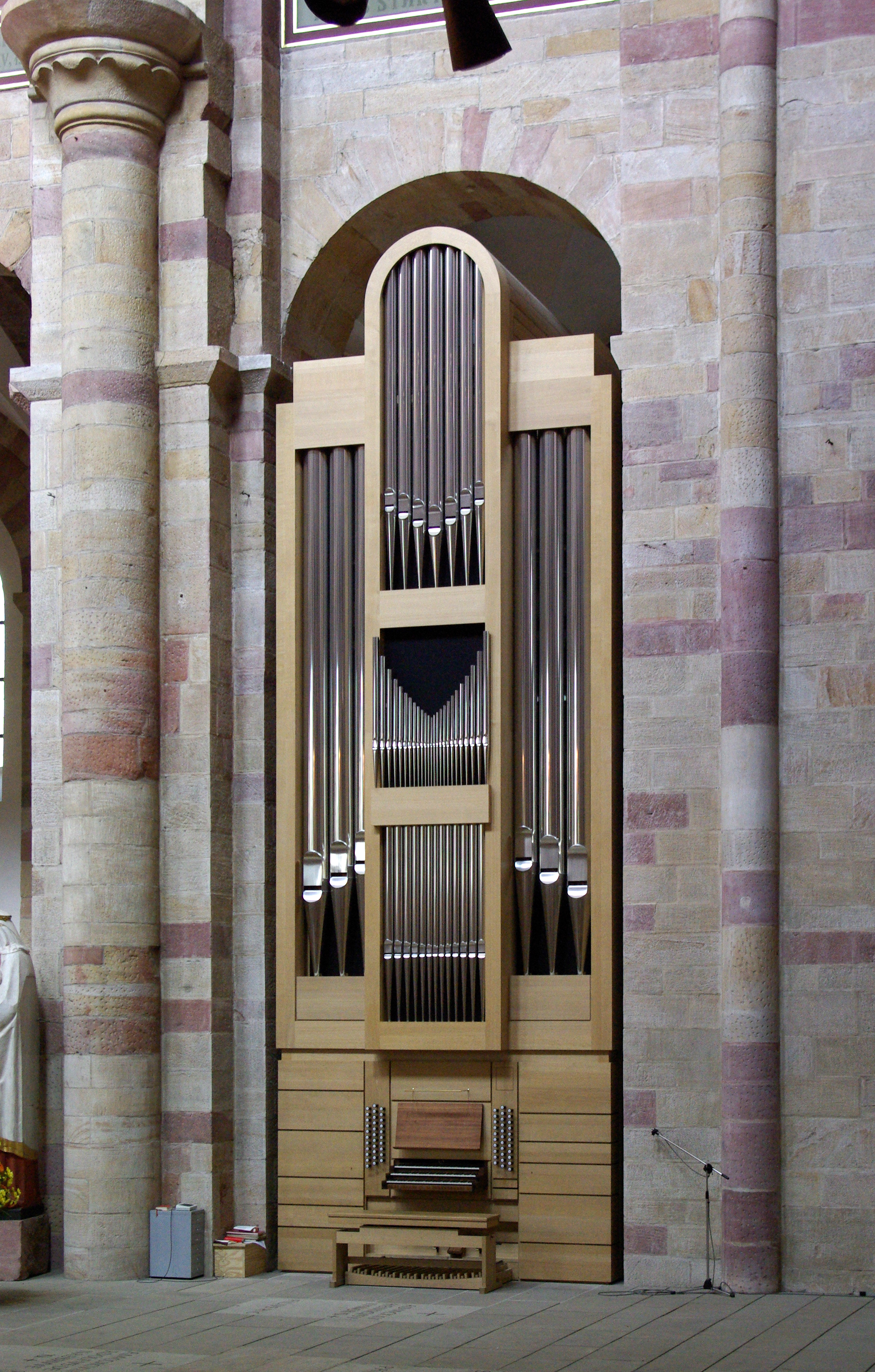 Germany, Speyer cathedral, organ